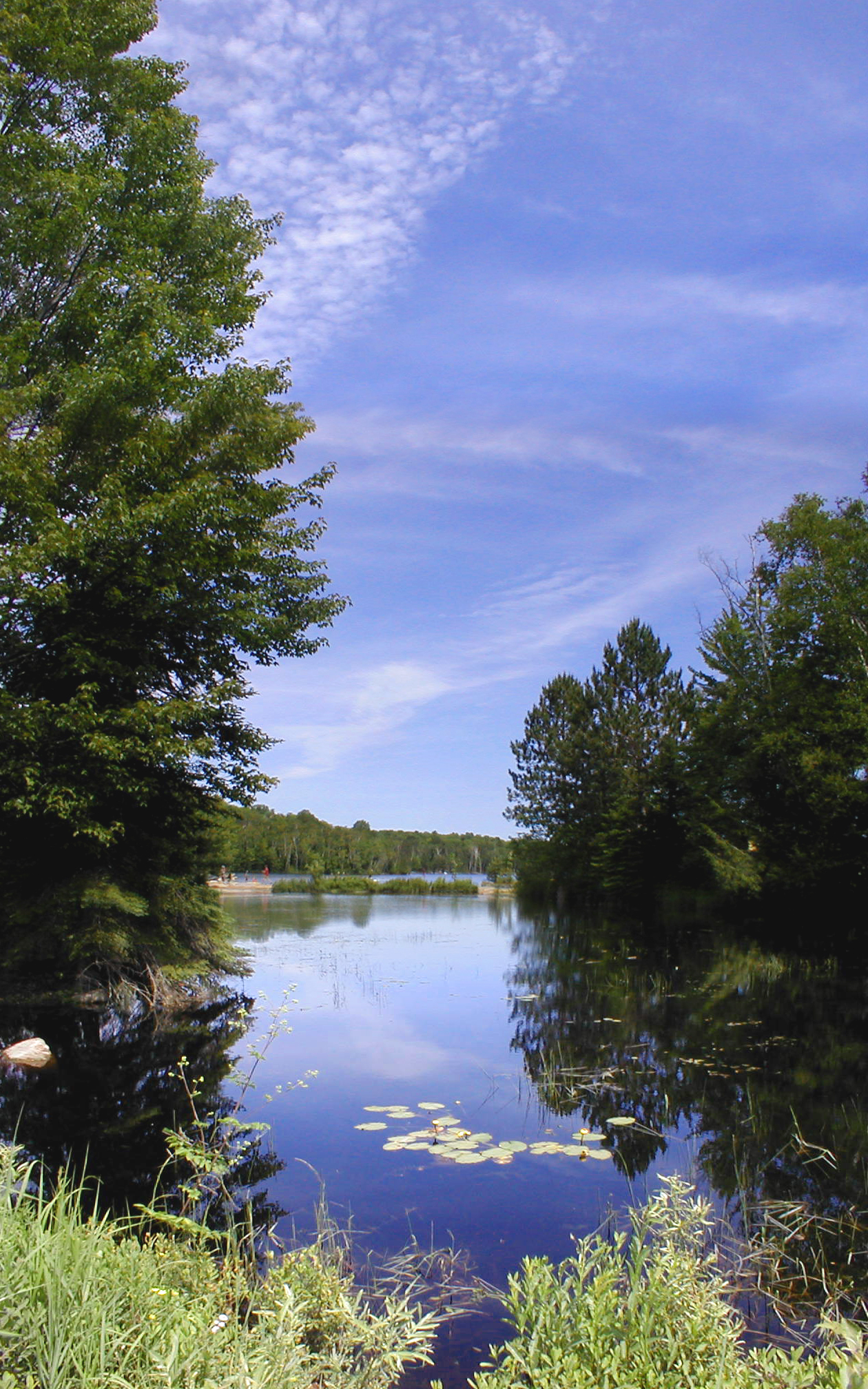 We spent the day touring a camp that my children will attend this summer. Camp Wanakita is YMCA summer camp on Koshlong Lake in Haliburton County, Ontario. GeoTagged